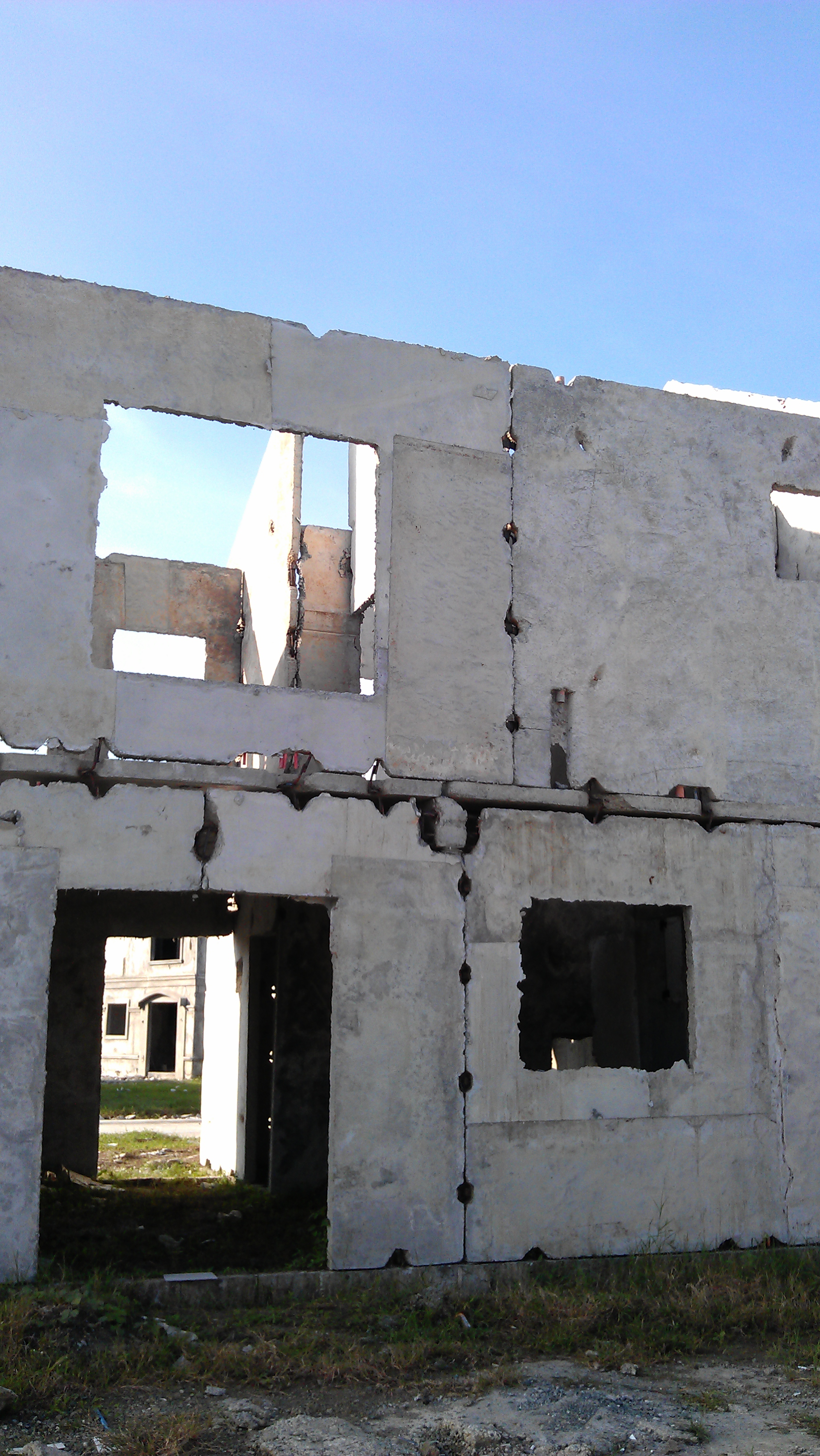 A sample of Gabrielle unit construction at Manchester 1 Village, Lancaster New City, Barangay Navarro, General Trias, Cavite showing cracked and non-fitted pre-cast panels with exposed dowels and the absence of vertical posts and horizontal beams.